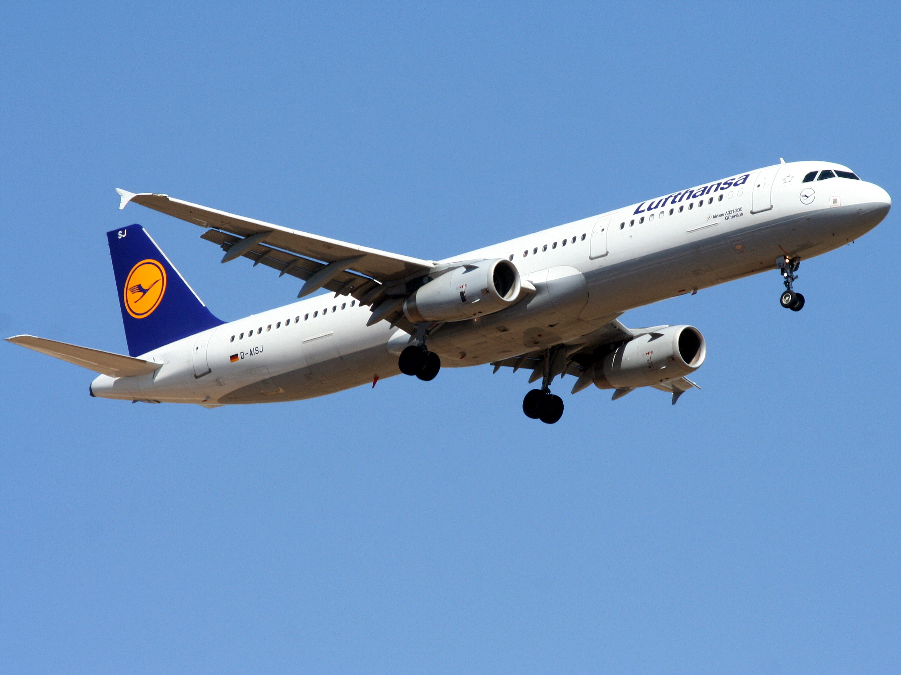 Landing at Ben Gurion International airport